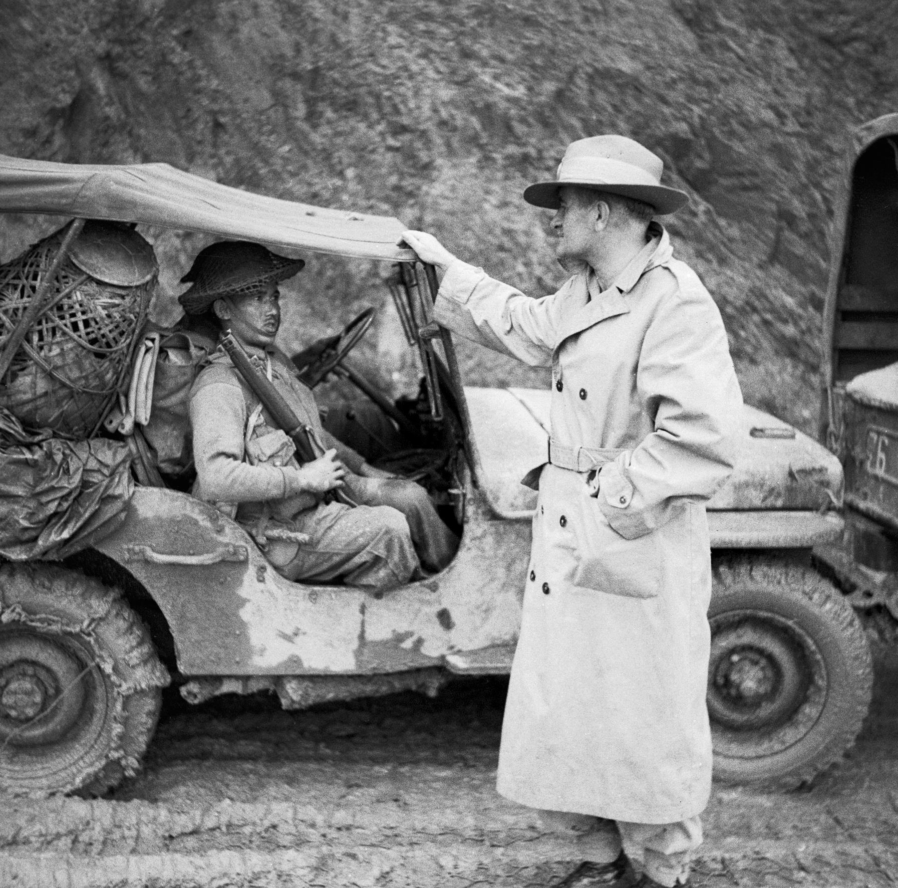 Lieutenant General Sir William Slim, commanding British Fourteenth Army in Burma, chatting with a Gurkha rifleman, November 1944. Field Marshal Sir William Slim (1891 - 1970): Slim, 14th Army Commander, chatting with a Gurkha rifleman sitting in a jeep, Palel area, Burma.